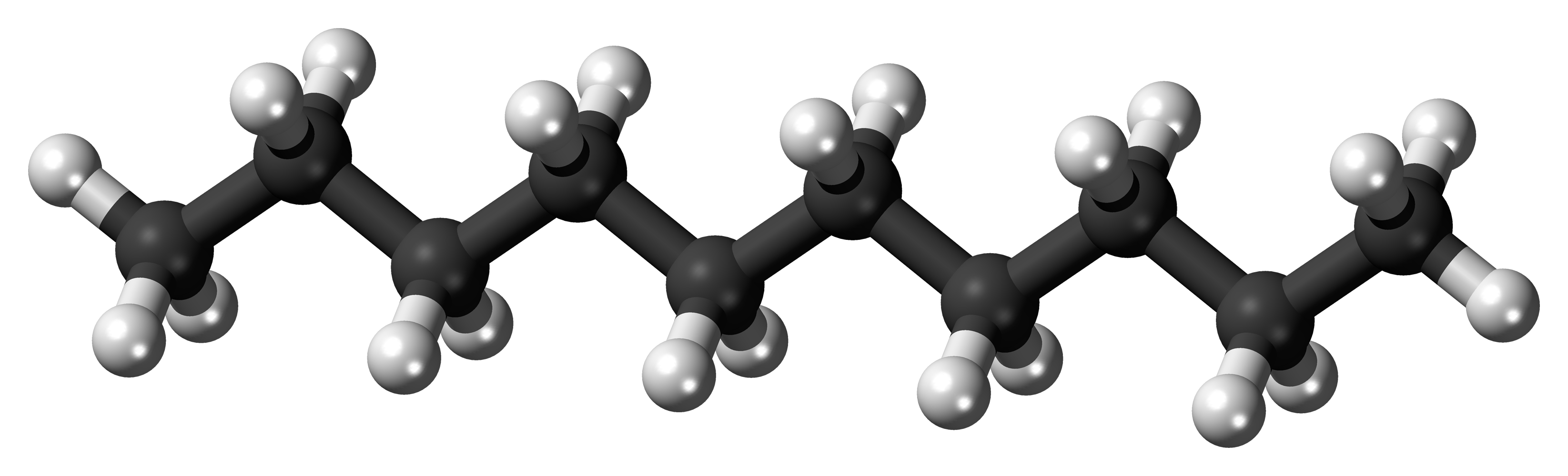 Ball-and-stick model of the decane molecule, an alkane with ten carbon atoms. Color code: Carbon, C: black Hydrogen, H: white